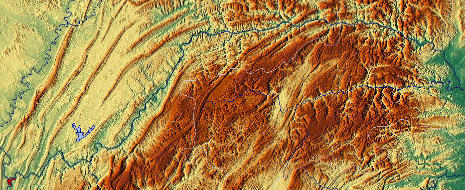 Topgrafic Map of the three gorges